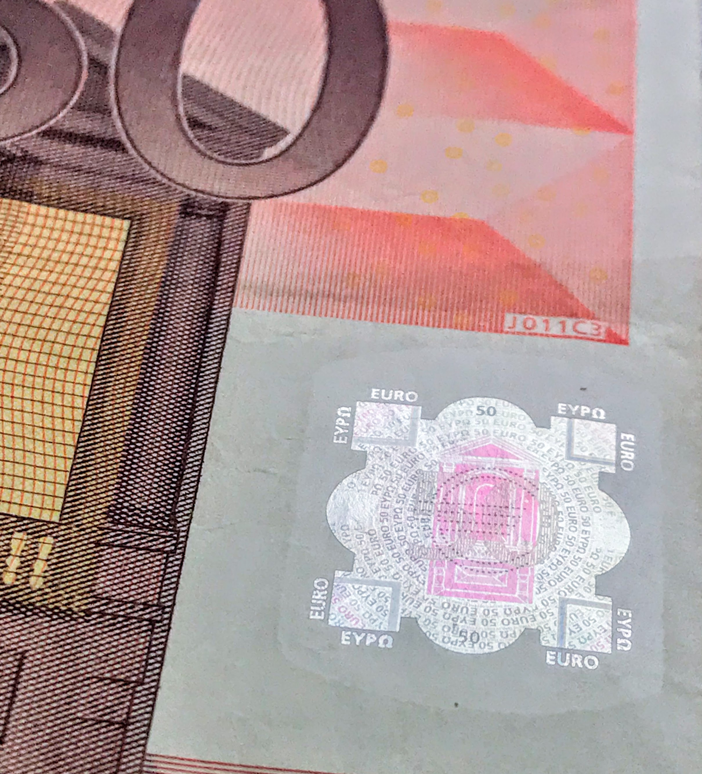 50 Euro bill watermark